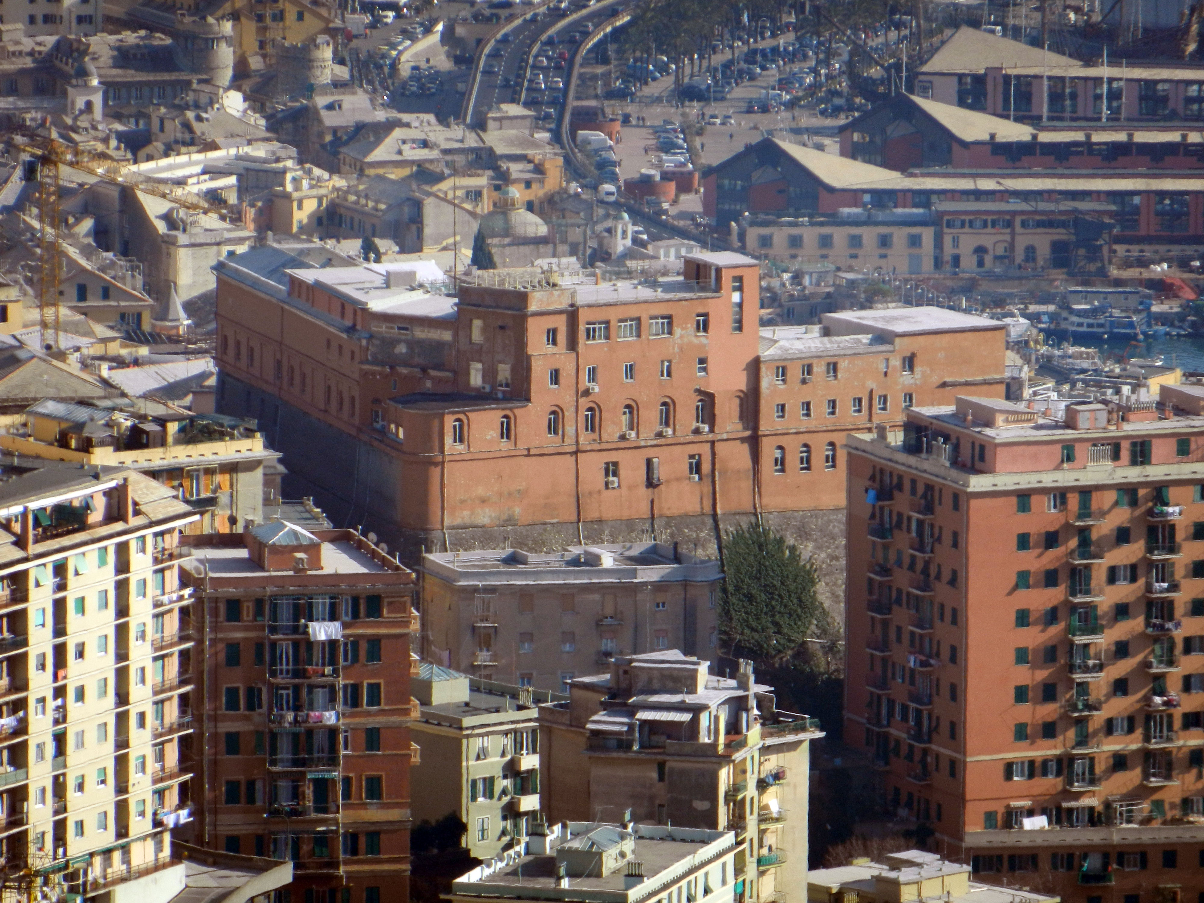 Genoa (Italy), the headquarters of Navy Hydrographic Institute